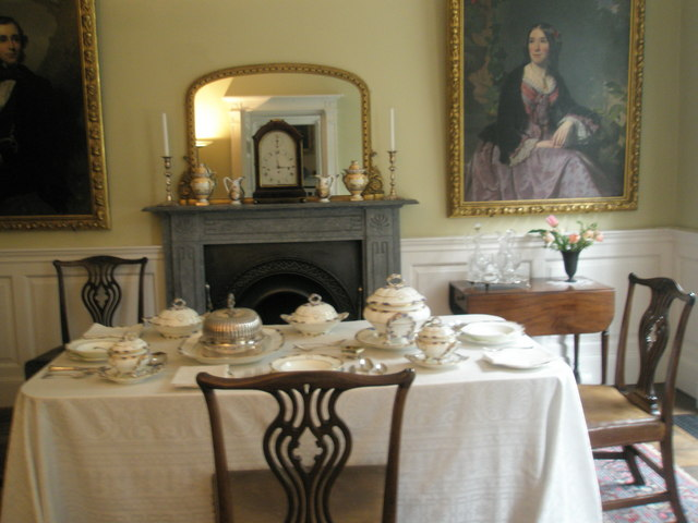 Inside the Darby House (2)